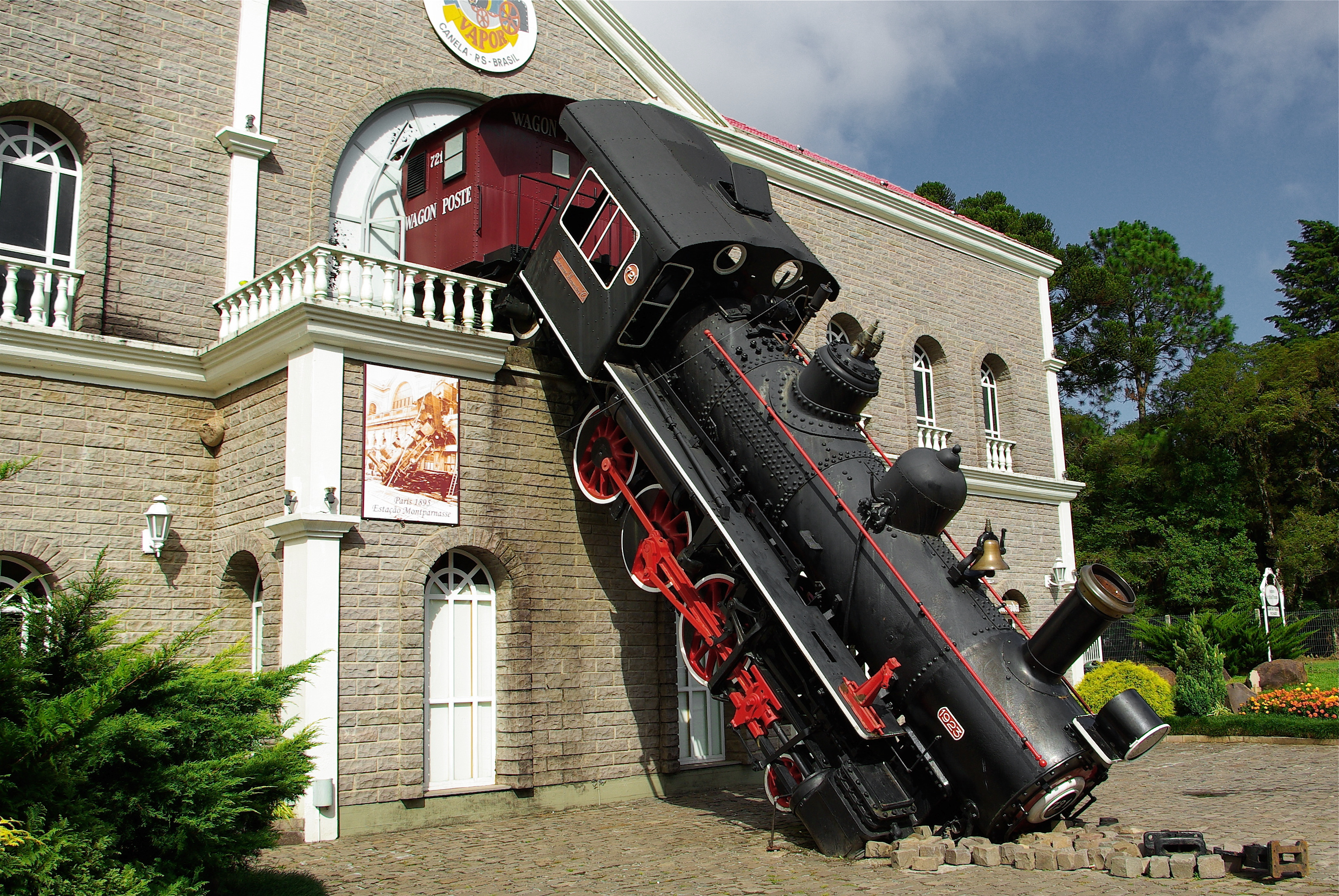 Replica of the Granville-Paris Express accident on 22 October 1895 at the Gare Montparnasse located in Canela, Rio Grande do Sul, Brazil.